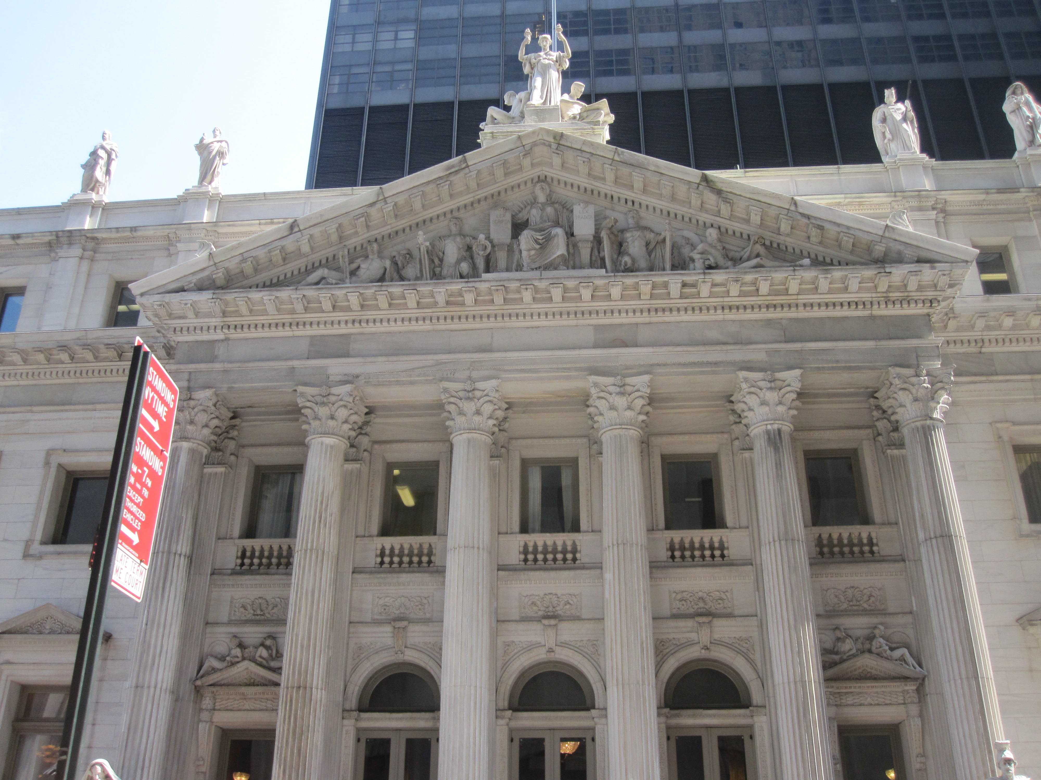 New York appeals court building on Madison Avenue